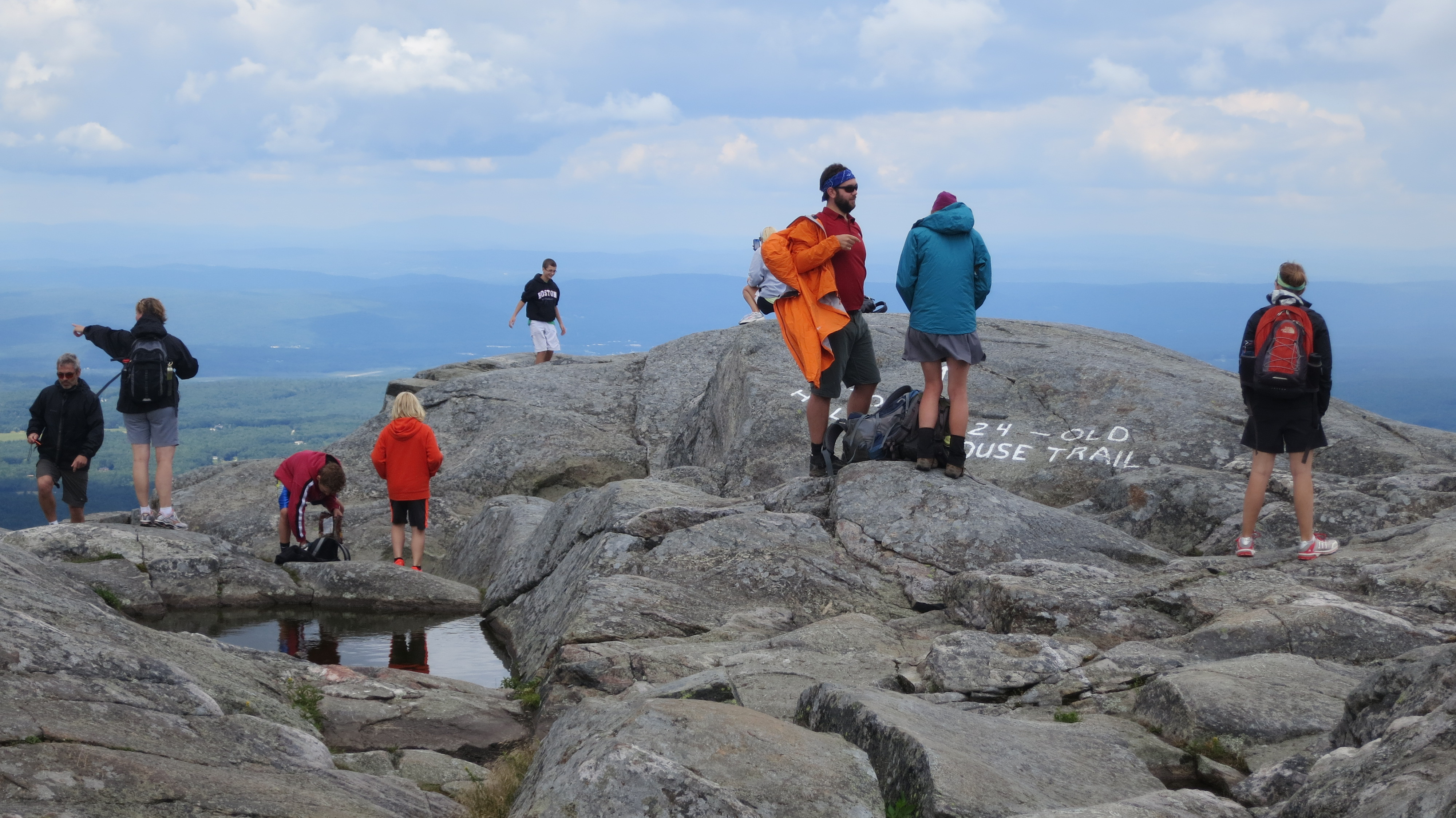 Summit of the 2nd most or perhaps 3rd most frequently climbed mountain on the planet.